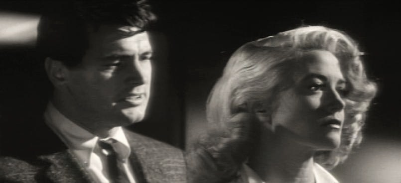 Rock Hudson & Dorothy Malone in The Tarnished Angels - trailer (cropped screenshot)